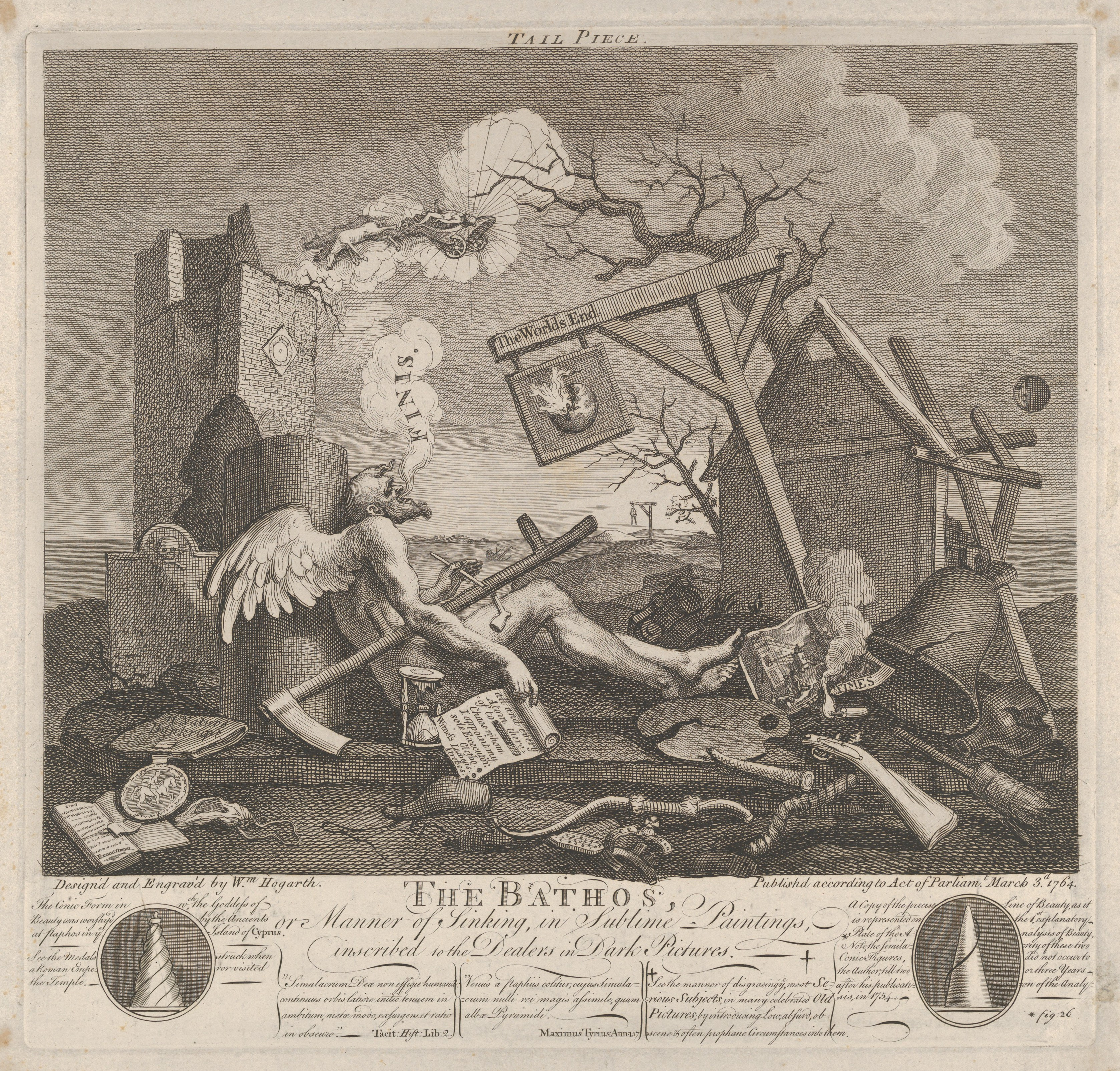 Print; Prints